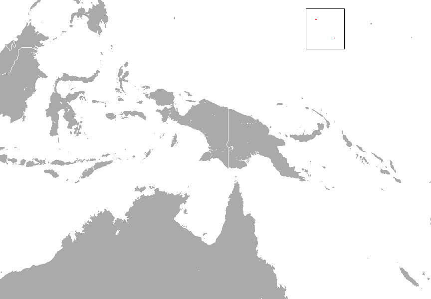 Chuuk Flying Fox (Pteropus insularis) range